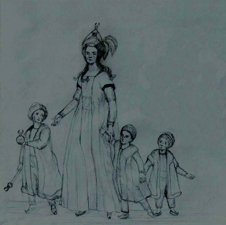 Modern sketch of Mahfiruz Hatice Sultan ca. 1619, with her children Sultan Osman II, and princes Bayezid and Suleiman.